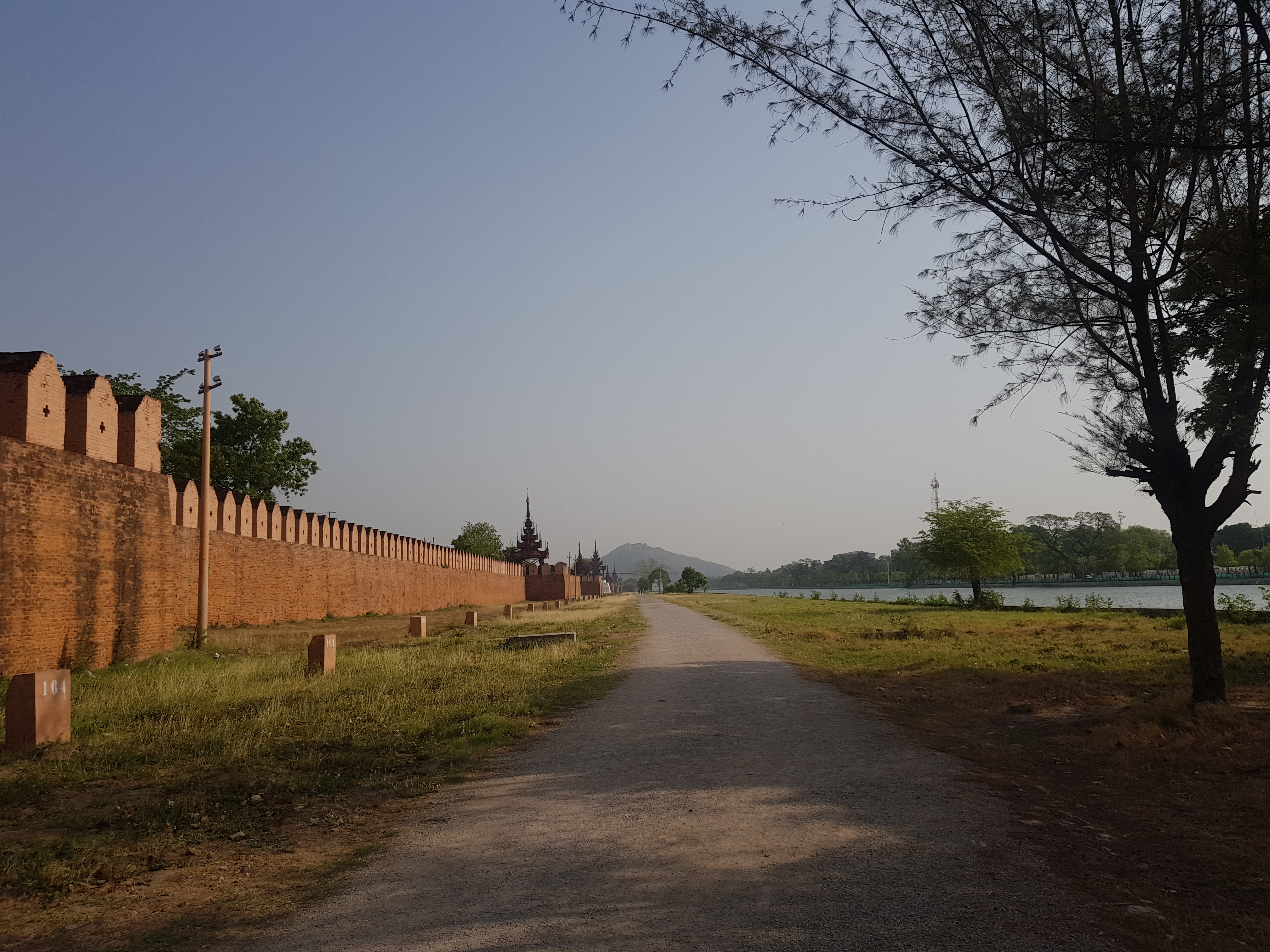 Mandalay Palace Wall